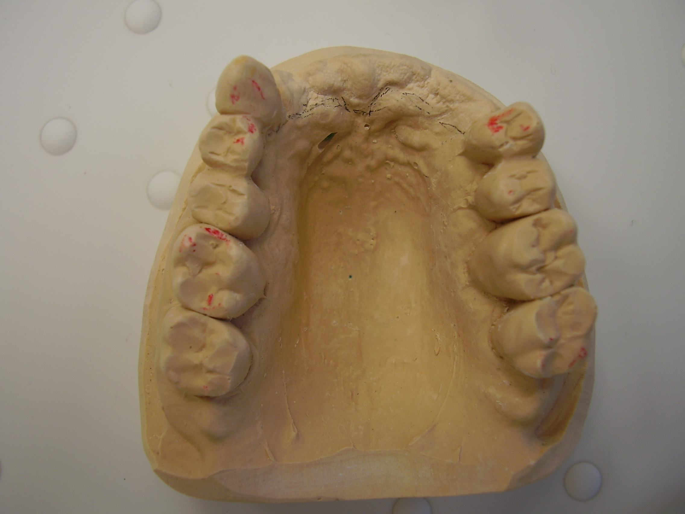 Modellgussprothese